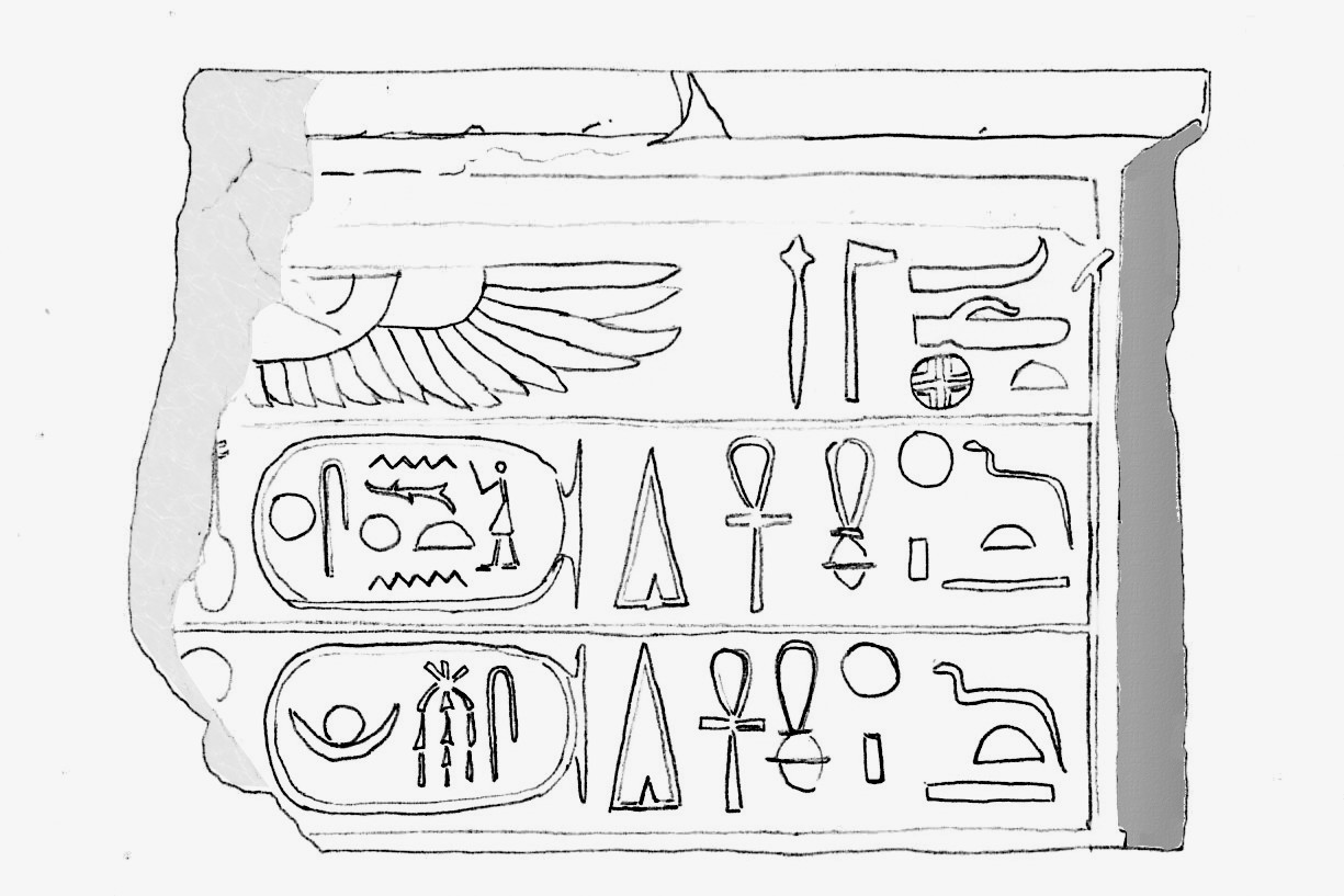 Drawing of a door lintel bearing the cartouches of pharaoh Senakhtenre Ahmose. Limestone from the Temple of Amun at Karnak, reign of Senakhtenre, 17th Dynasty, Second Intermediate Period. Based on a picture from Sébastien Biston-Moulin (2012) "Le roi Sénakht-en-Rê Ahmès de la XVIIe dynastie", ENiM 5, p. 61-71.